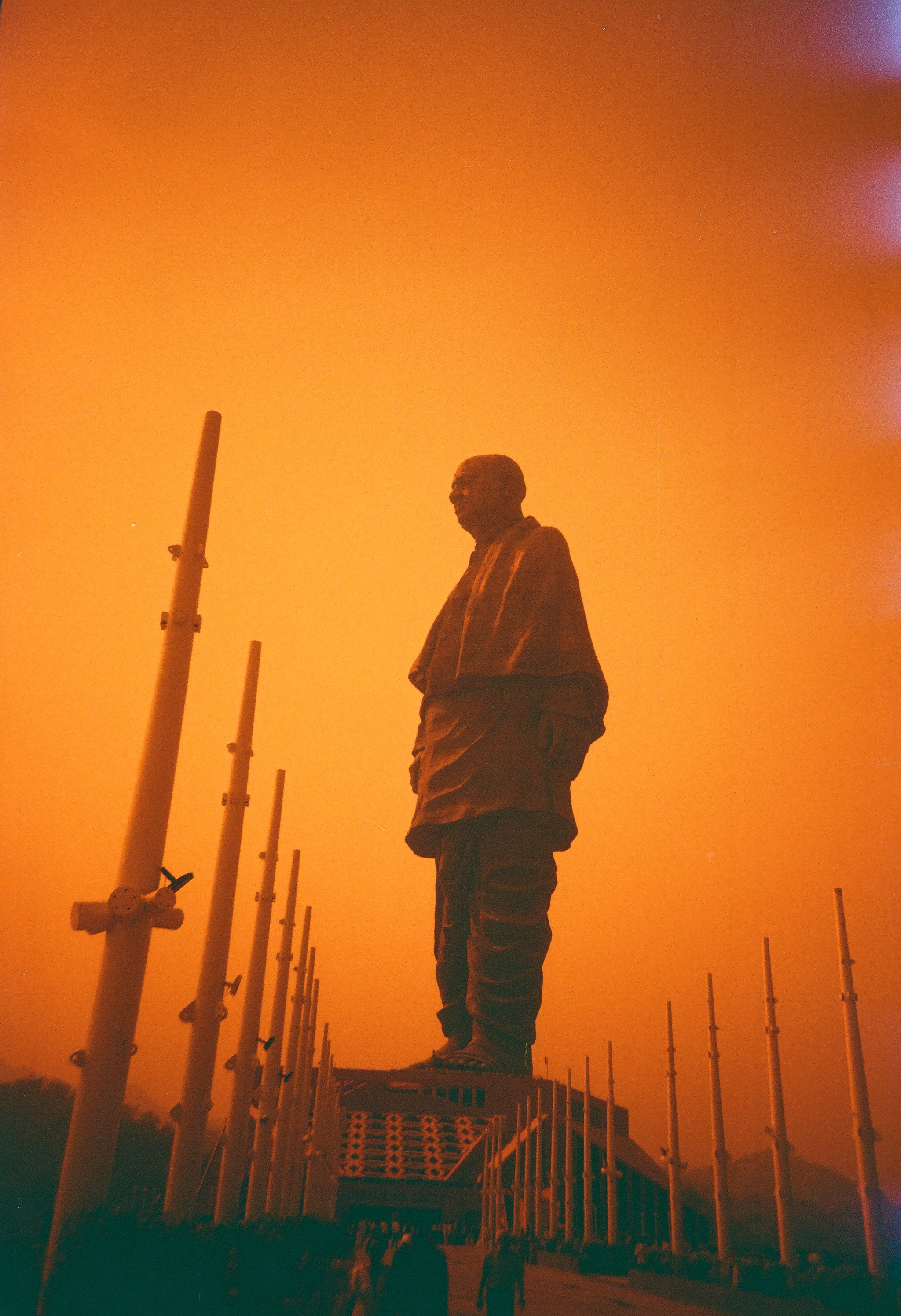 Probably the first ever photograph (lomograph) of the Statue taken on film. Also adapted an Alternative Photographic Process.